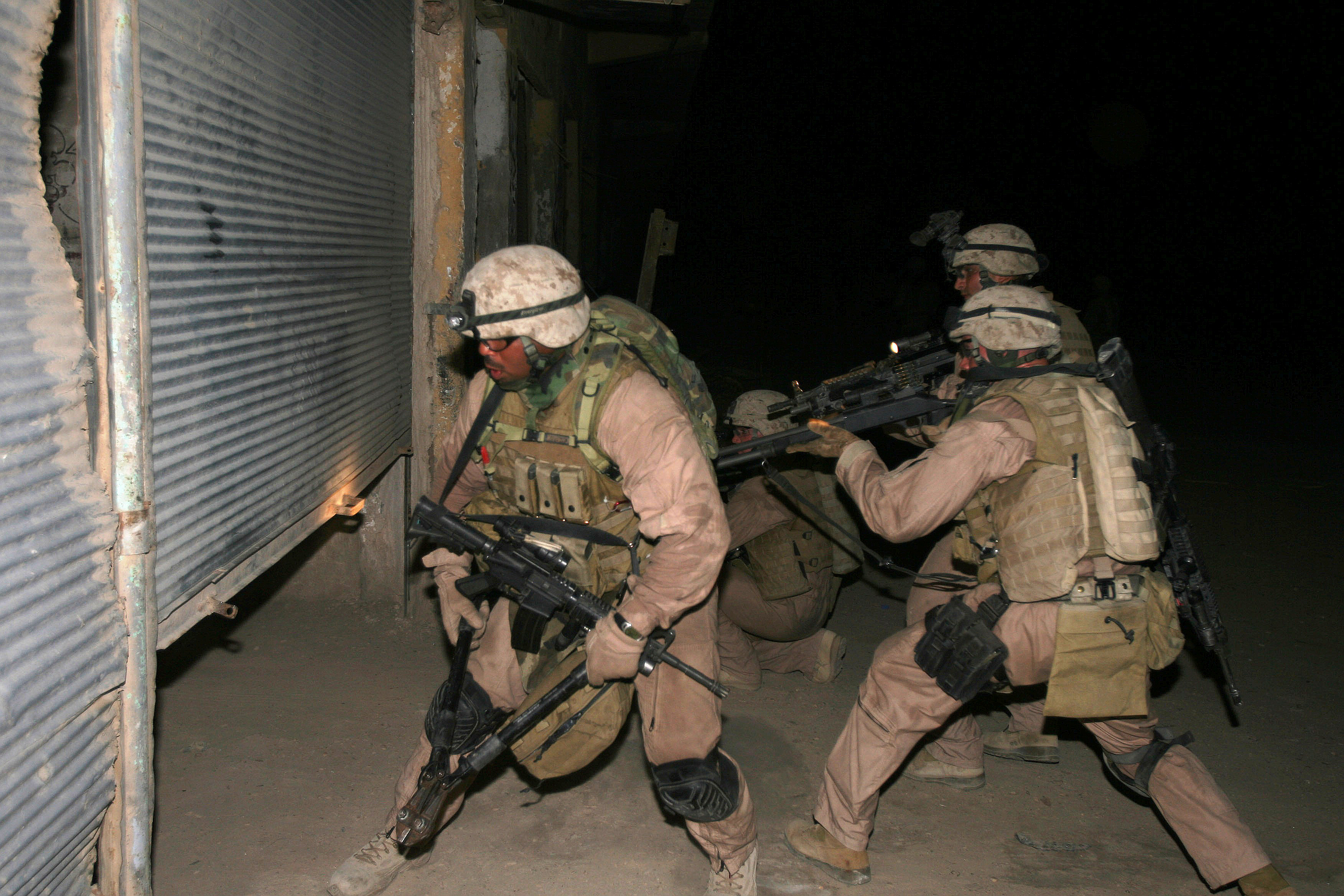 FALLUJAH, Iraq - An assault team from B Company, 1st Battalion, 25th Marine Regiment, Regimental Combat Team 5, conducts a raid on a possible suicide vehicle bomb workshop in Fallujah. The Marines searched the vacant garage in central Fallujah after receiving intelligence that the owner might be supporting insurgents to harm Coalition forces and innocent civilians. Photo by: Cpl. Brain Reimers Photo ID: 20066435937 Submitting Unit: 1st Marine Division Photo Date:28/05/2006